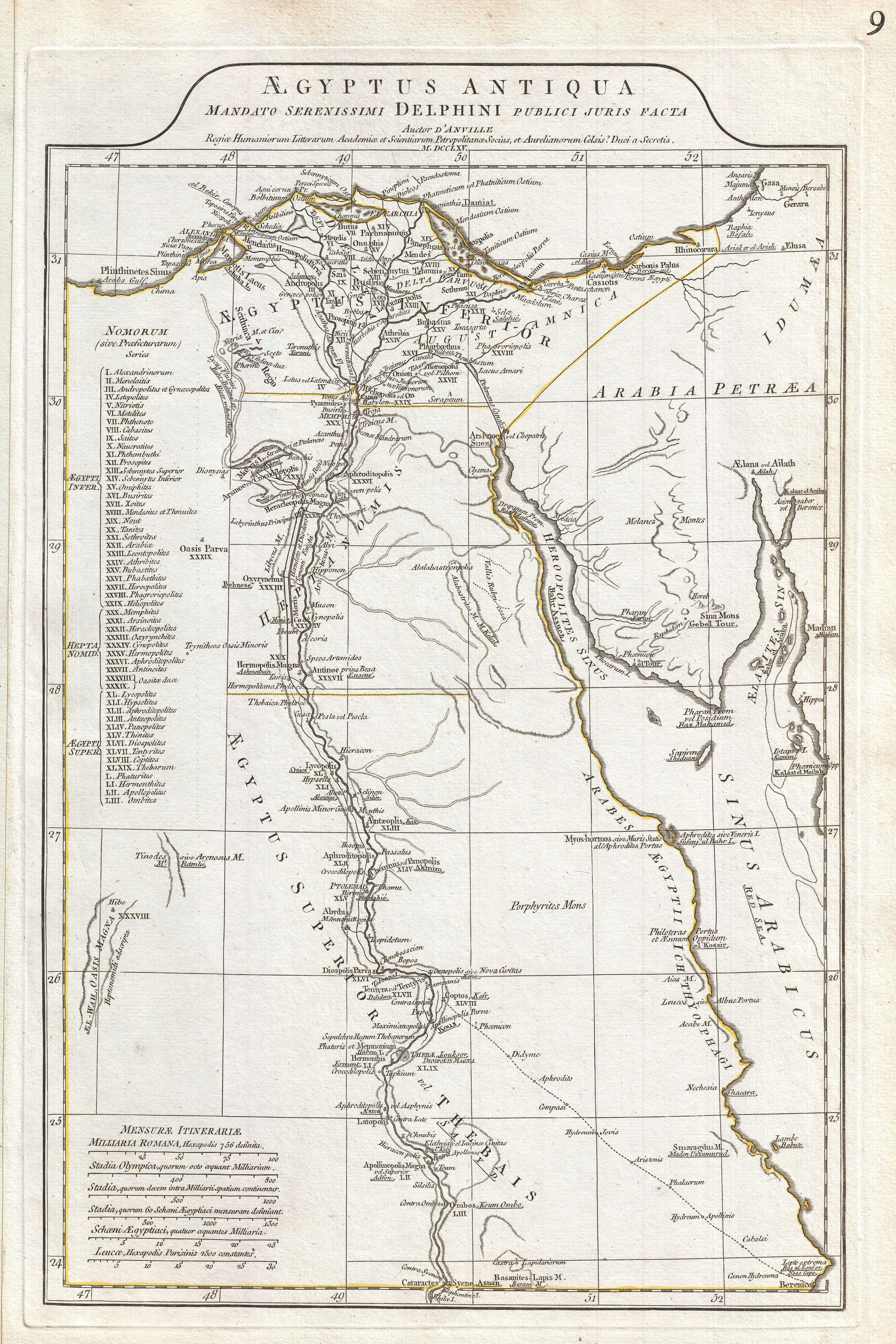 A large and dramatic 1794 J. B. B. D'Anville map of Ancient Egypt Covers from the Nile Delta and Gaza south as far as Aswan. Details mountains, rivers, cities, roadways, and lakes with political divisions highlighted in outline color. Features both ancient and contemporary place names, ie. Thebae and Luxor, for each destination - an invaluable resource or scholars of antiquity. Identifies the Pyramids, Mount Sinai, Natron, Philae Island, the Cataracts, etc. Title area appears in a raised zone above the map proper. Includes six distance scales, bottom left, referencing various measurement systems common in antiquity. Text in Latin and English. Drawn by J. B. B. D'Anville in 1762 and published in 1794 by Laurie and Whittle, London.